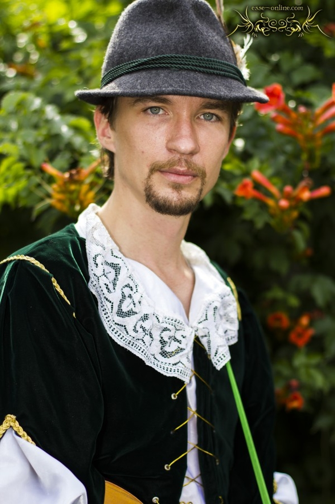 Michael Papchenkov (Julian Alfred Pankratz viscount de Lettenhove (Buttercup, Lyutik). Rock-opera "Road without return" of group "ESSE", based on the saga of A. Sapkowski "The Witcher". The photographer - Yury Osadchy.